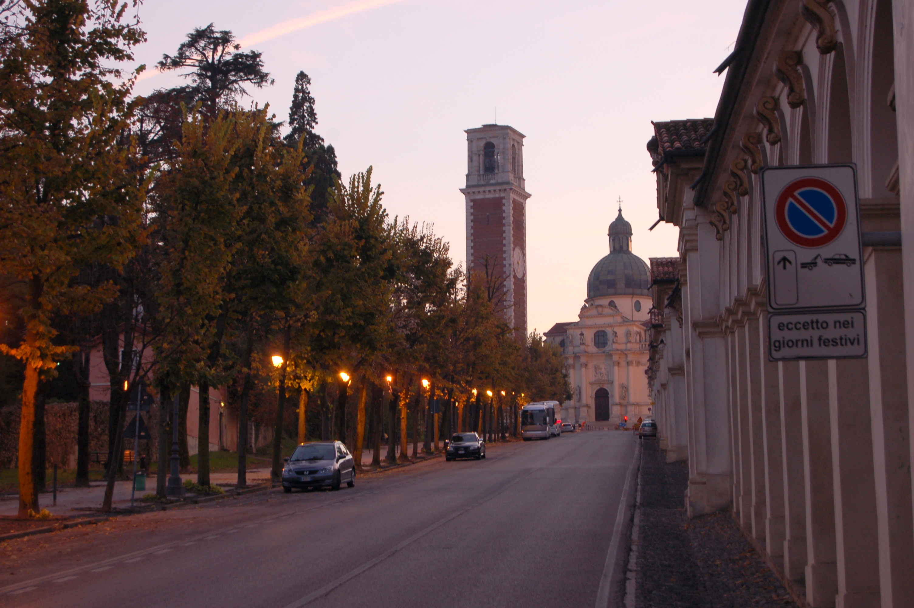 Viale 10 Giugno (10 June Street) and Monte Berito Basilica in Vicenza, Italy